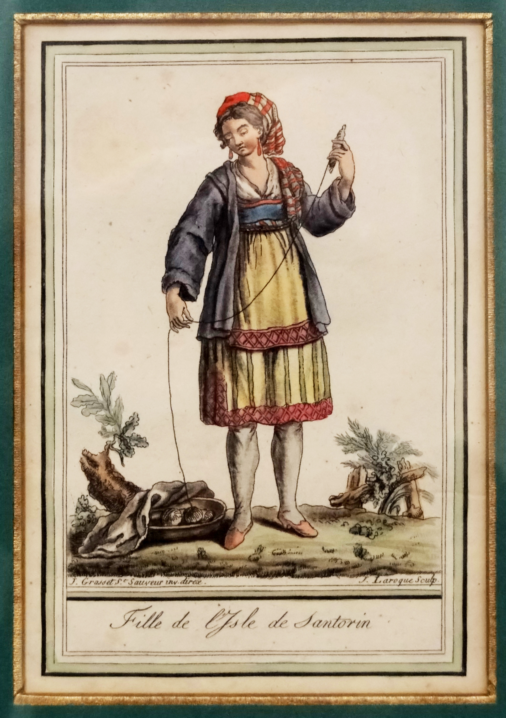 Painting representing a girl of Santorini in the museum of the Cultural Centre Megaro Gyzi, Fira, Santorini, Greece